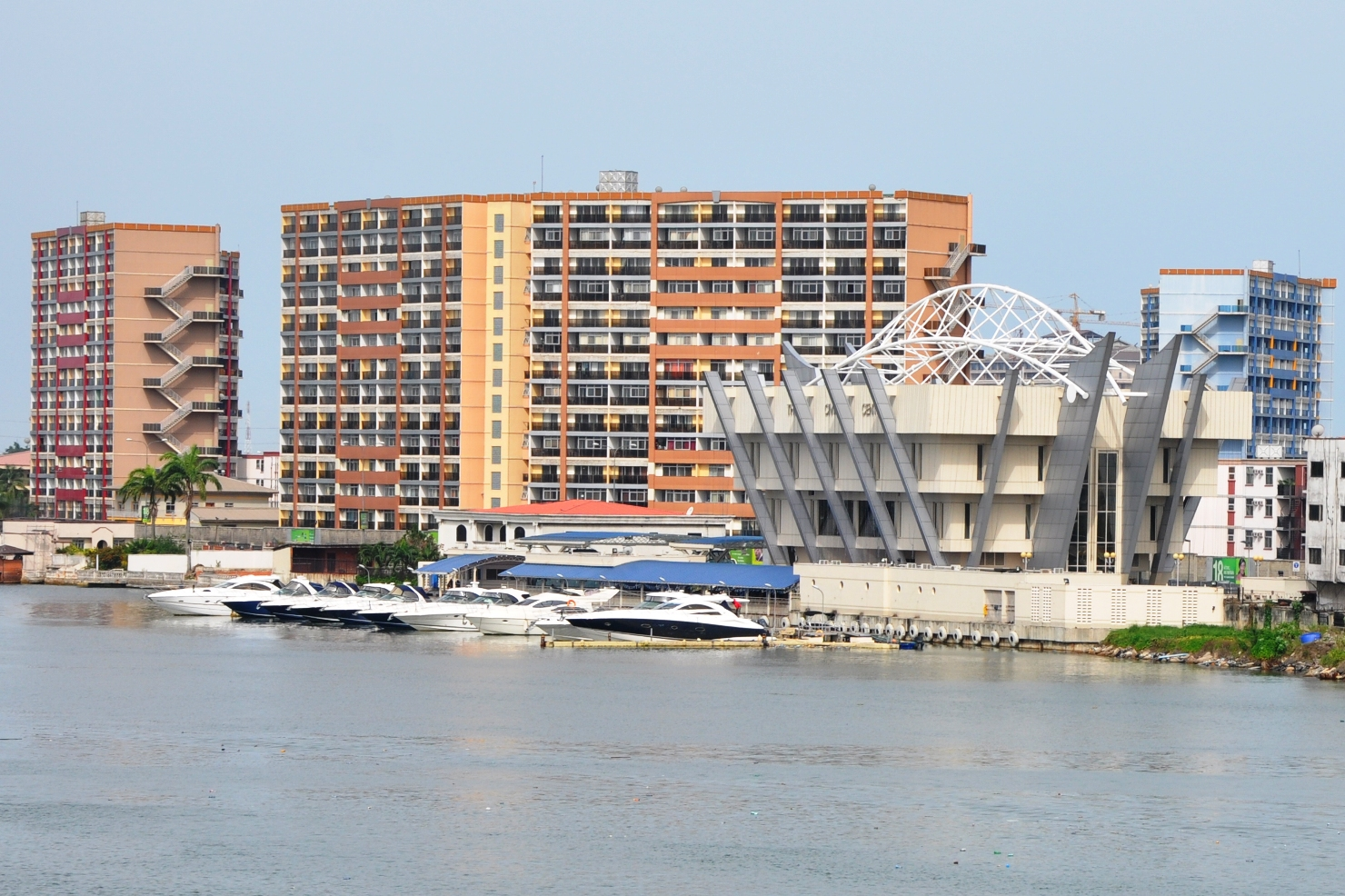 This is an image of "African people at work" from Nigeria